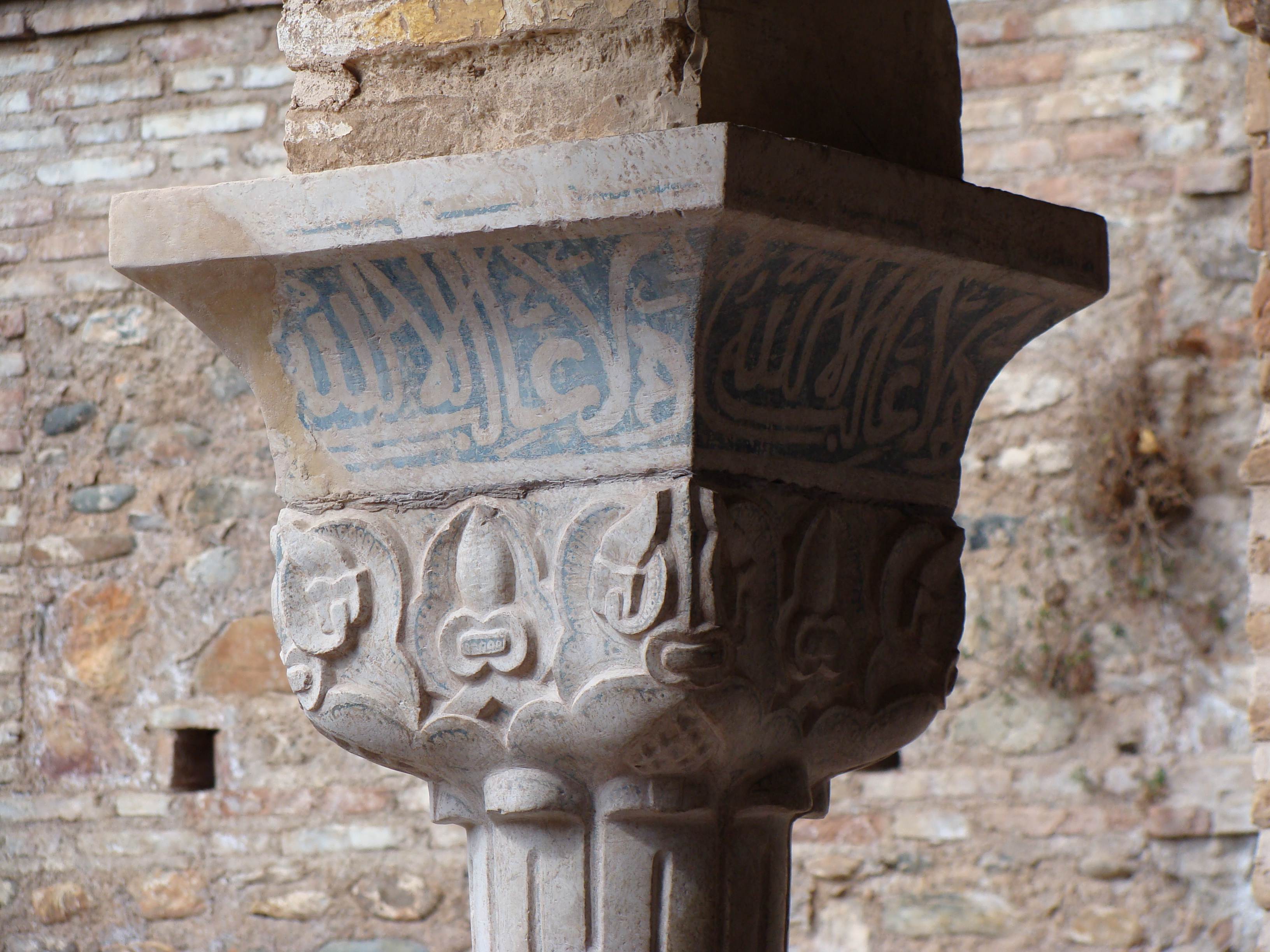 Arab capital in the Alhambra of Granada, Spain